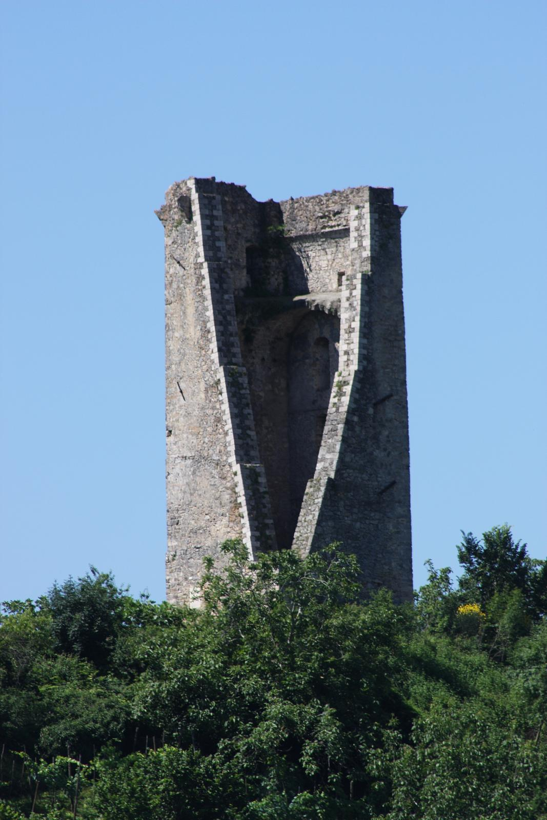 Castelfranco tower, Rieti (Lazio, Italy)